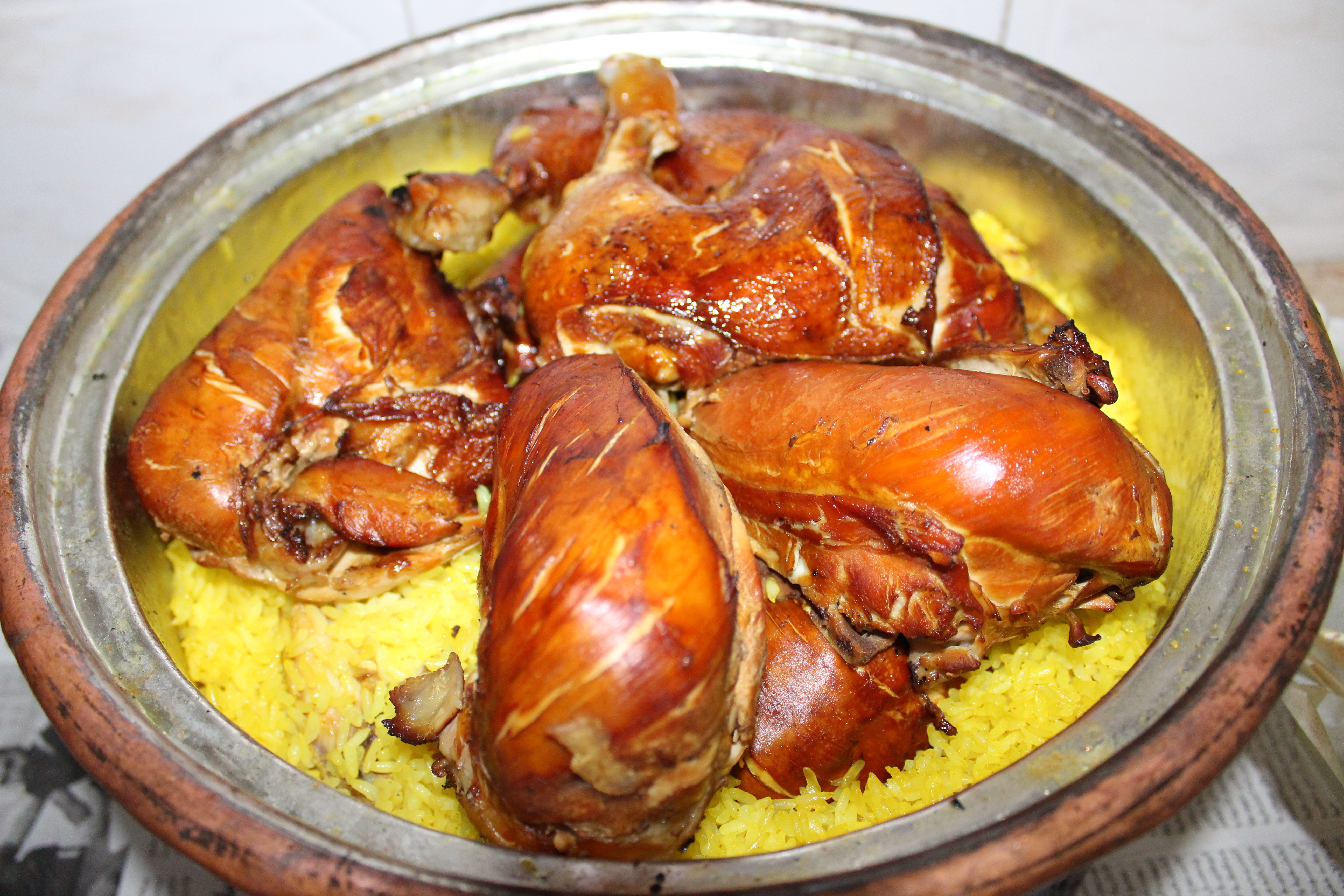 Al-Qedra is a popular Palestinian food, especially in Hebron